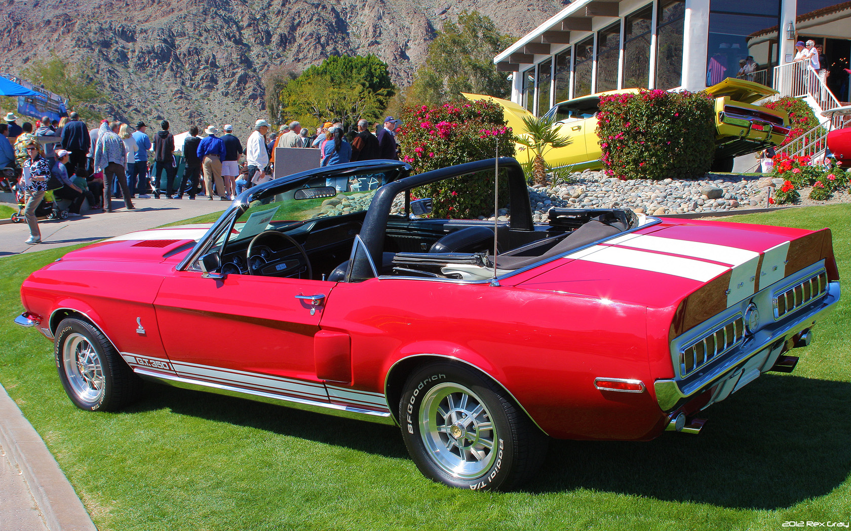 1968 Ford Shelby Convertible - rvl